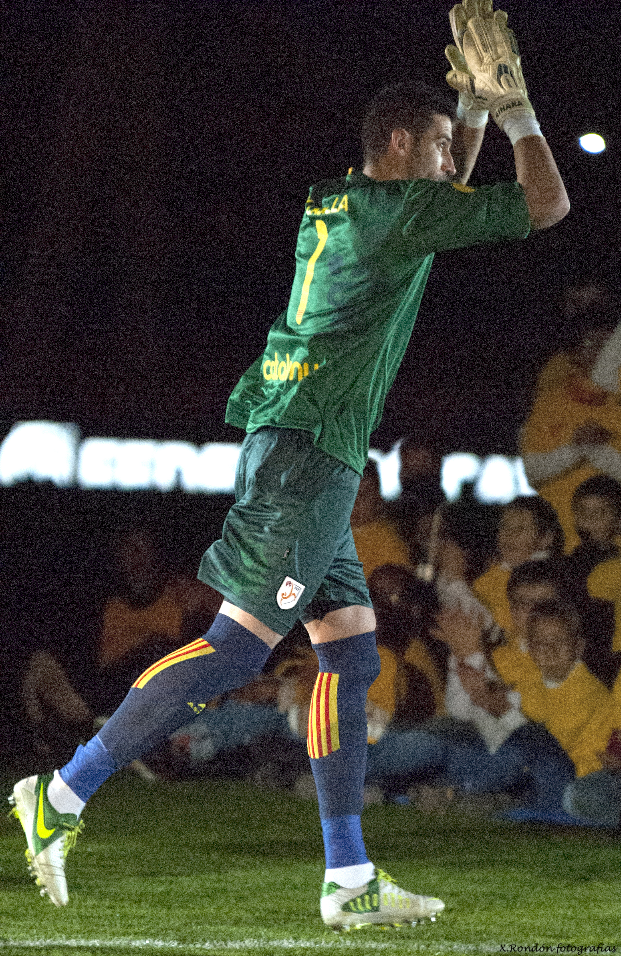 Kiko Casilla before friendly match Catalonia vs. Nigeria